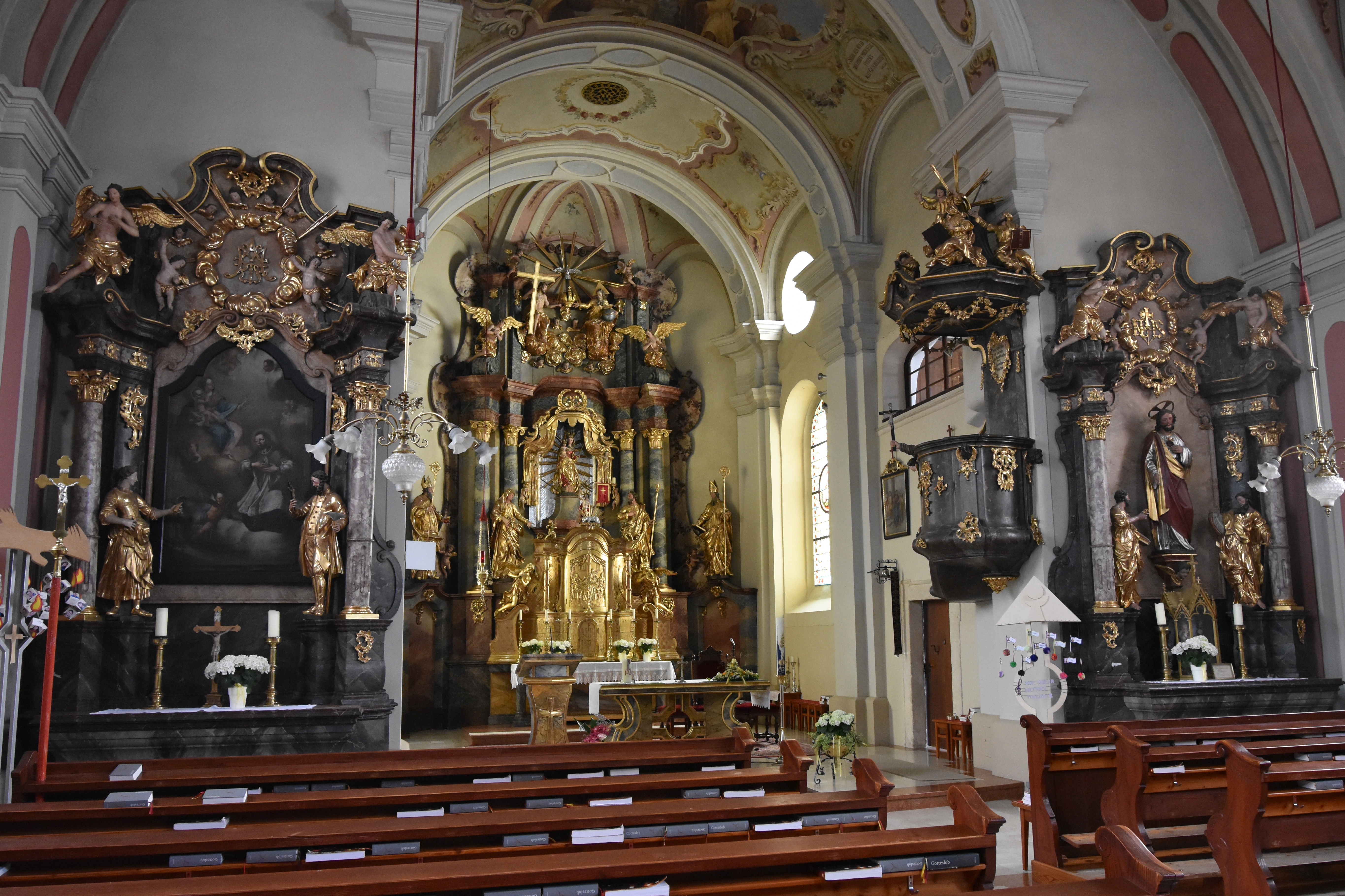 Church Pfarrkirche Preding - Interior